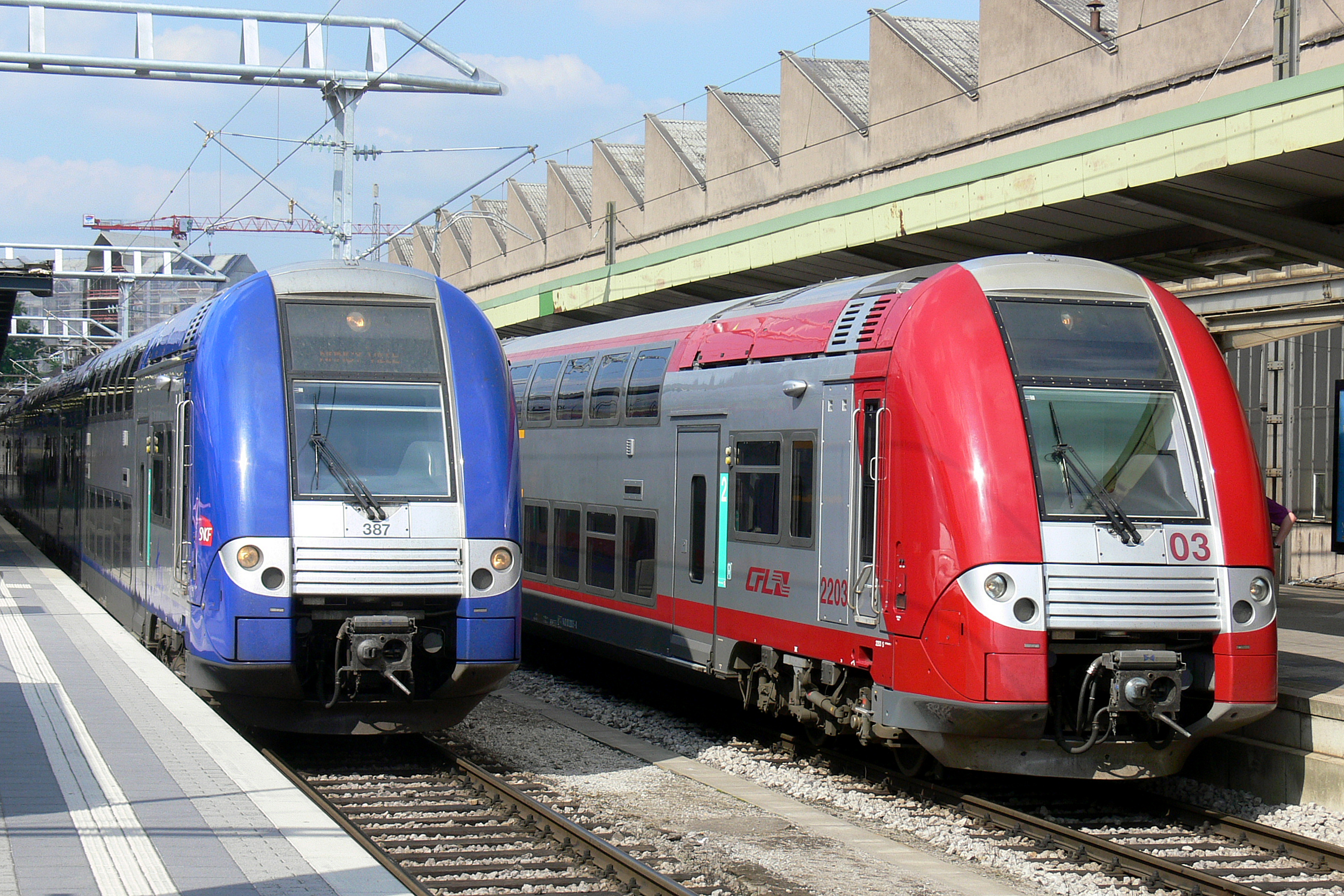 CFL 2203 + SNCF 387 at Luxembourg Central